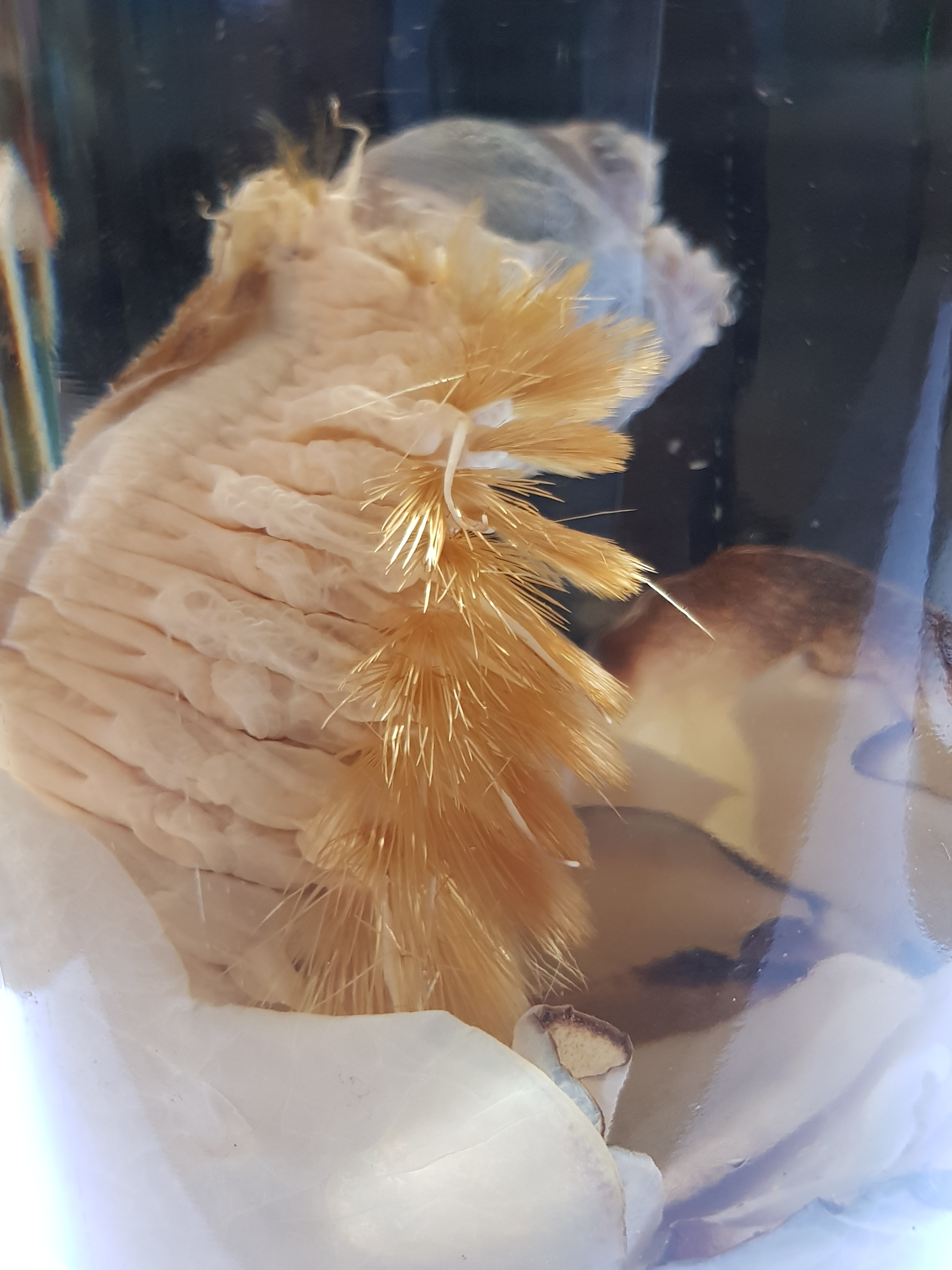 Eulagisca gigantea NIWA specimen